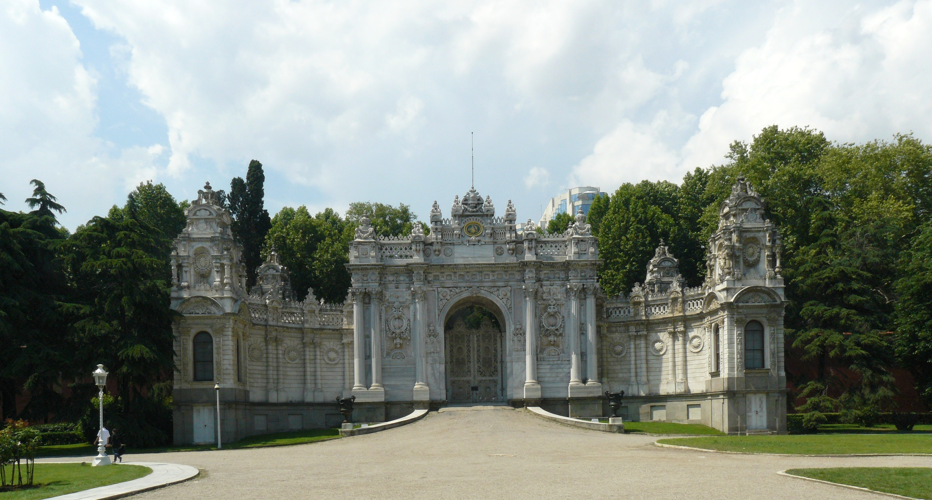 Dolmabahçe palace gates, Istanbul.